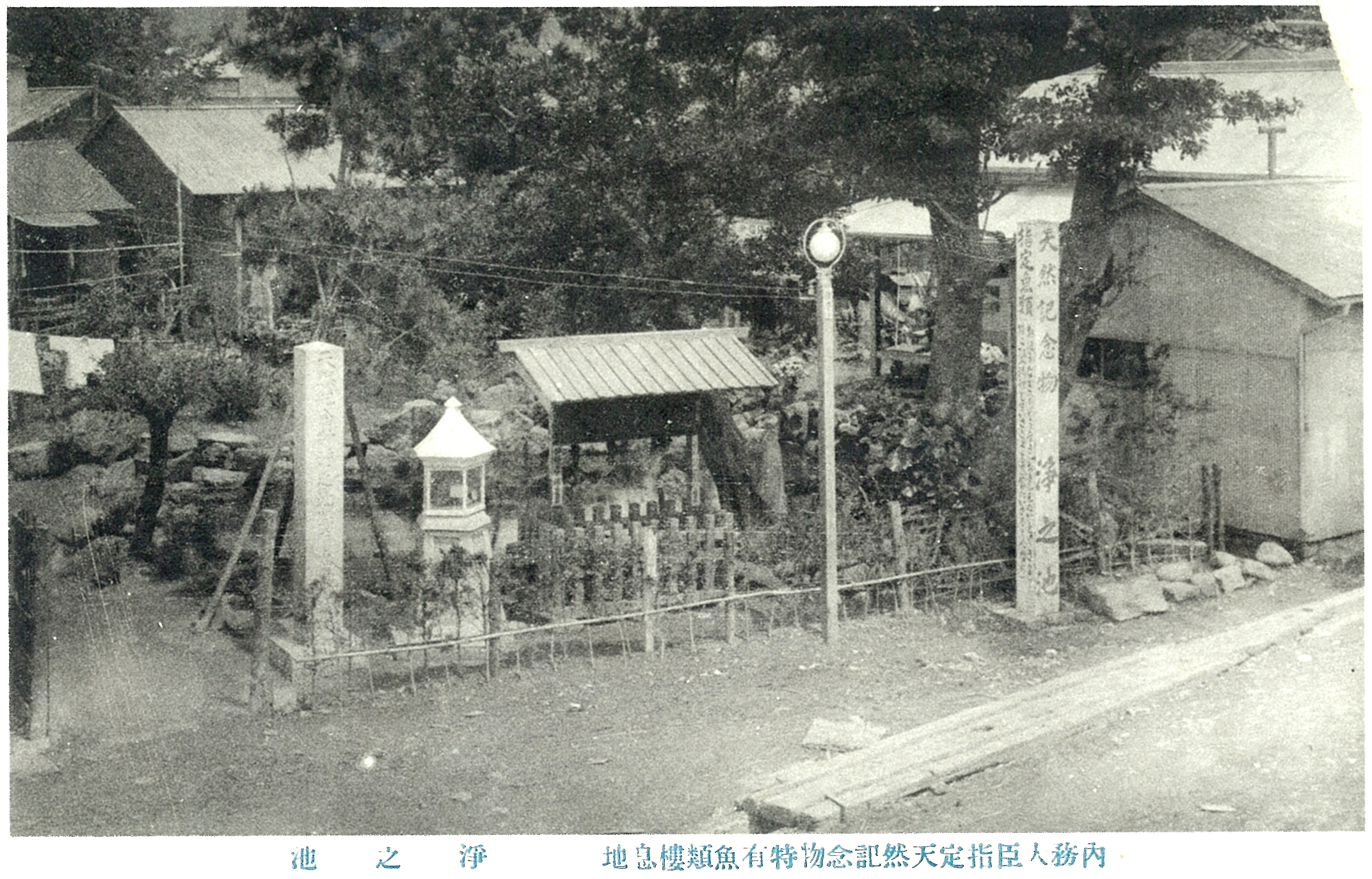 Jono-ike pond postcard.1920s